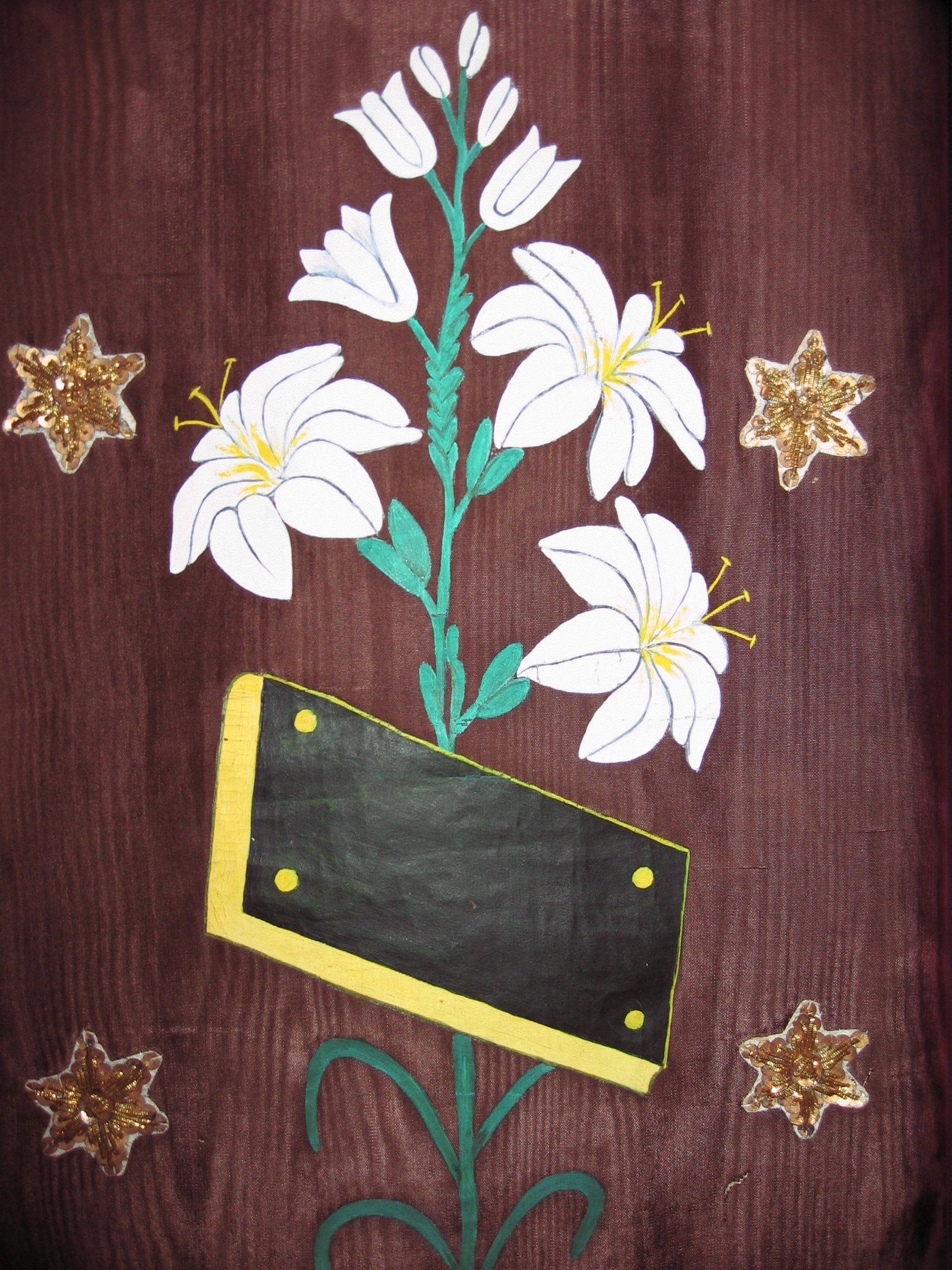 St. Anthony from Padua Brotherhood Taranto